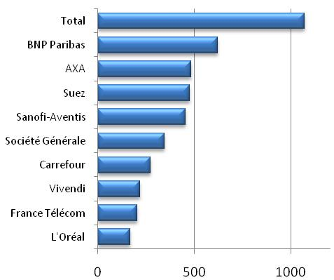 Sovereign wealth fund in the world